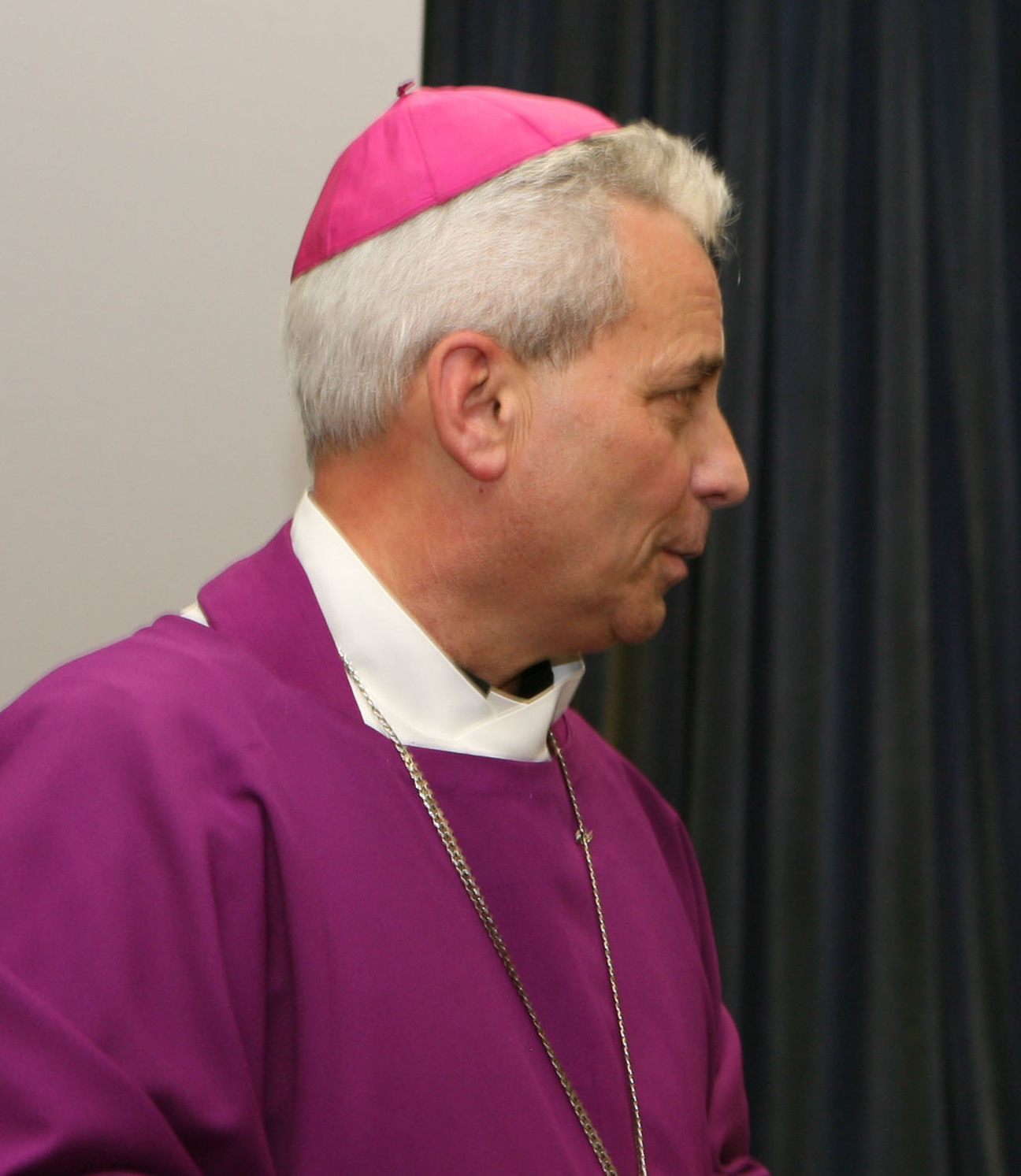 CAMP H.M. SMITH, Hawaii -- Most Reverend Joseph W. Estabrook, D.D., Auxiliary Bishop of Archdiocese of the Military Services, shakes hands with Col. James L. Stalnaker, Chief of Staff, U.S. Marine Corps Forces Pacific, after Roman Catholic mass, Feb. 15 in the chapel here. The bishop intends to visit US troops and local churches throughout the region. His intent is to better the partnership of the Roman Catholic churches. He also wants to push youth programs in the region.